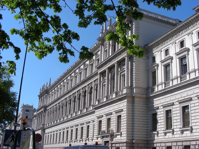 The University of Vienna is a public university located in Vienna, Austria. Having opened in 1365, it is one of the oldest universities in Europe. Although, according to Austrian tradition, the school no longer qualifies as a full university, it still offers more than 130 courses of study, and is attended by more than 63,000 students. University of Vienna